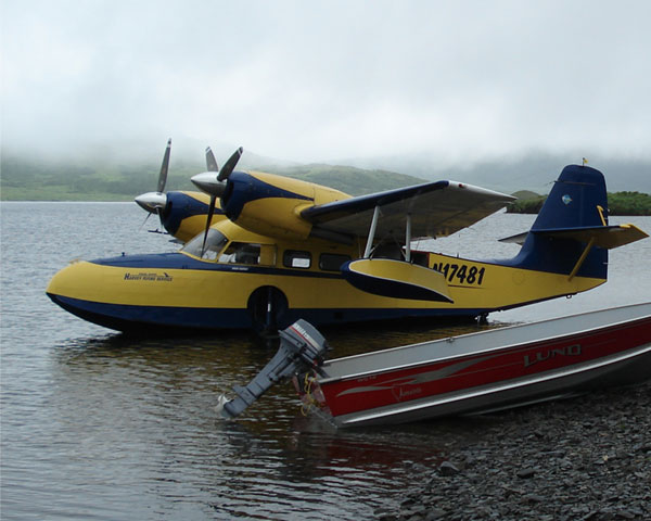 Author: James W. Harvey, Aircraft: Grumman Widgeon, G44 SN: 1360, Reg: N17481, Owner Operator: Steve Harvey, Harvey Flying Service, Kodiak Alaska. This photo was taken during August of 2006 on the shore of Frazier Lake on the southwest end of Kodiak Island, after dropping off a group of tourists for a bear viewing excursion.